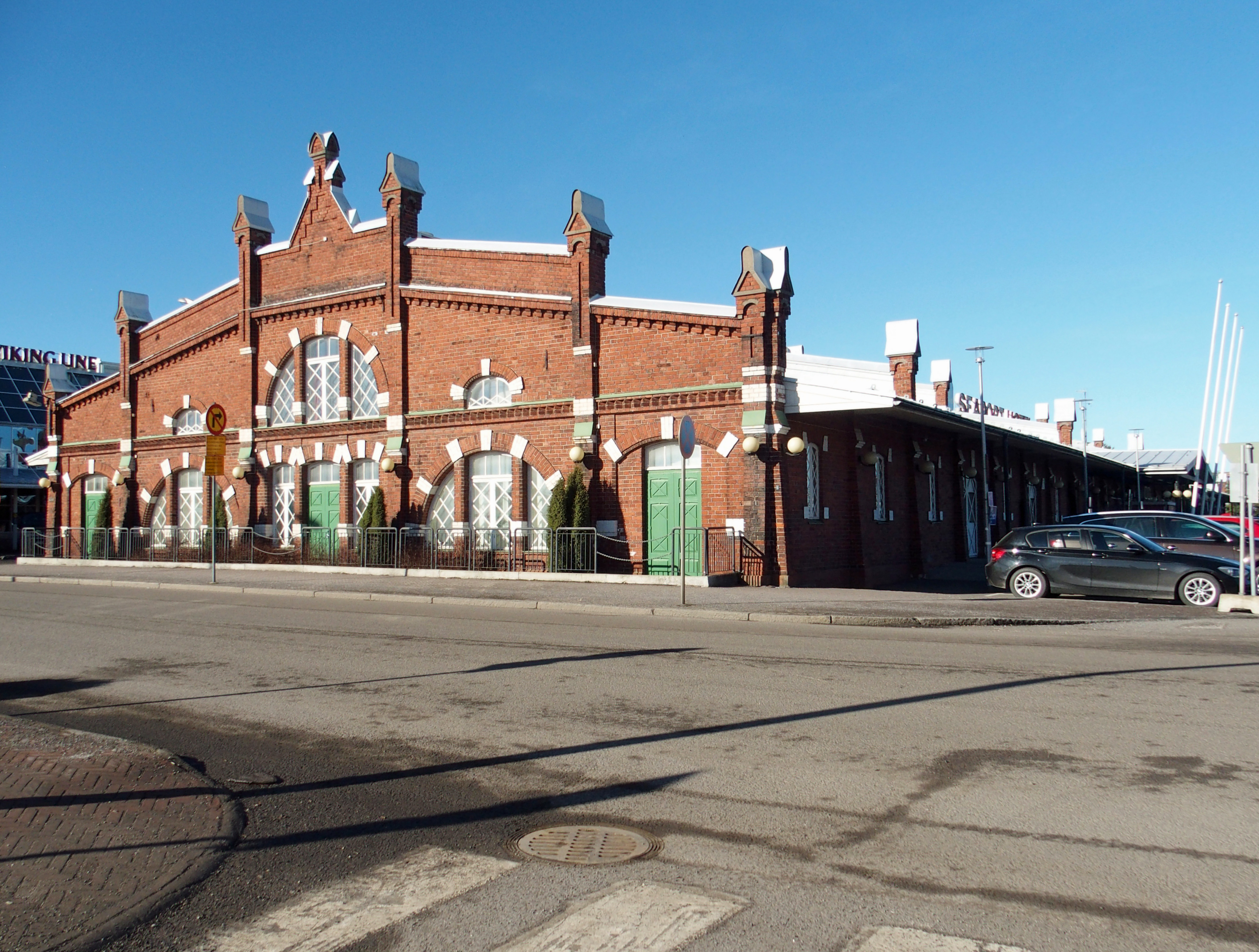 Part of Best Western hotel chain. Located next to Viking Line and Silja Line ferry terminals in the Port of Turku. Former warranty storage building by Elia Heikel and Stefan Michailov 1899, conversion into hotel by Ilkka Salo in 1986.